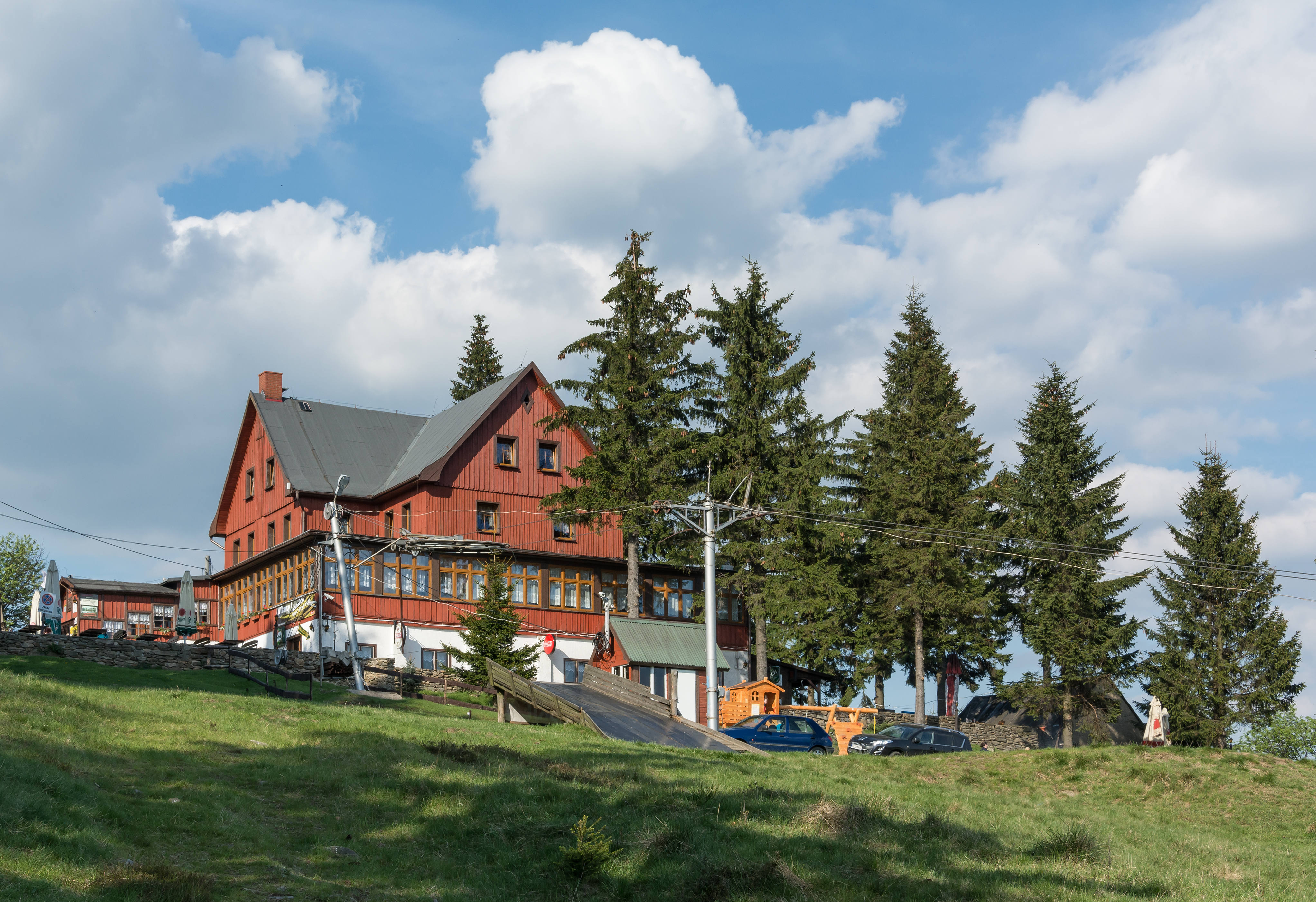 Orzeł Hostel, Sowie Mountains, Sudetes